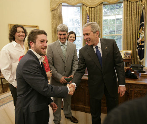 President George W. Bush welcomes Elliott Yamin, one of the top 10 American Idol finalists who arrived late to the Oval Office at the White House Friday, July 28, 2006, along with Yamin’s fellow performers, from left to right, Ace Young, Kelli Pickler, American Idol winner Taylor Hicks and Katharine McPhee. The popular FOX television program, which originated in 2002, uses audience participation to determine the best “undiscovered” young singer in the nation.